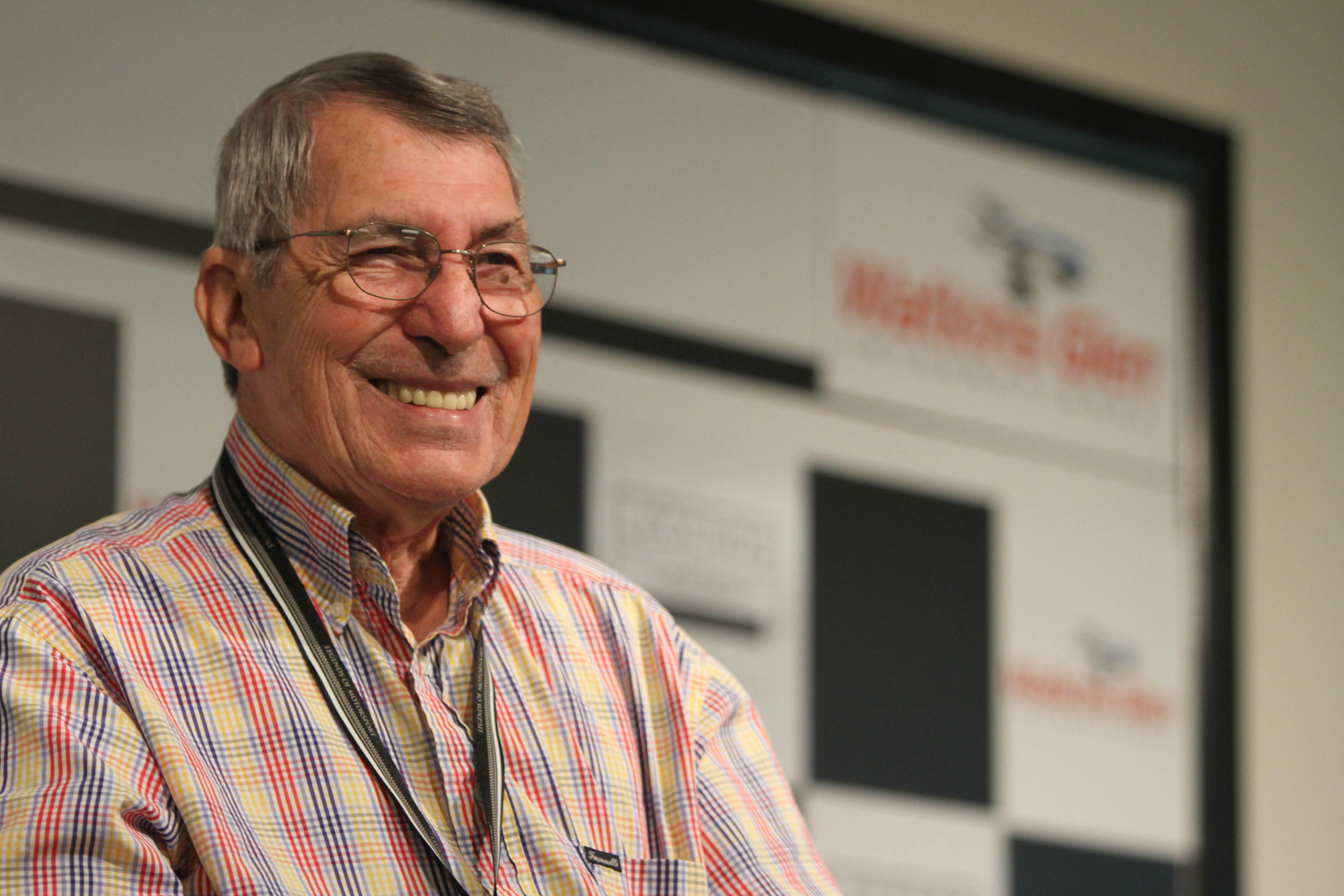 Vic Elford at the Legends of Motorsport historic racing event at Watkins Glen in 2010